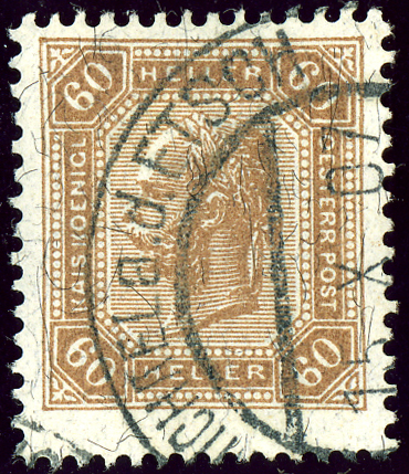 Austrian KK 60 heller stamp, cancelled at ST.MICHAEL a.d. ETSCH, South Tyrol, District Trient, in 1907.